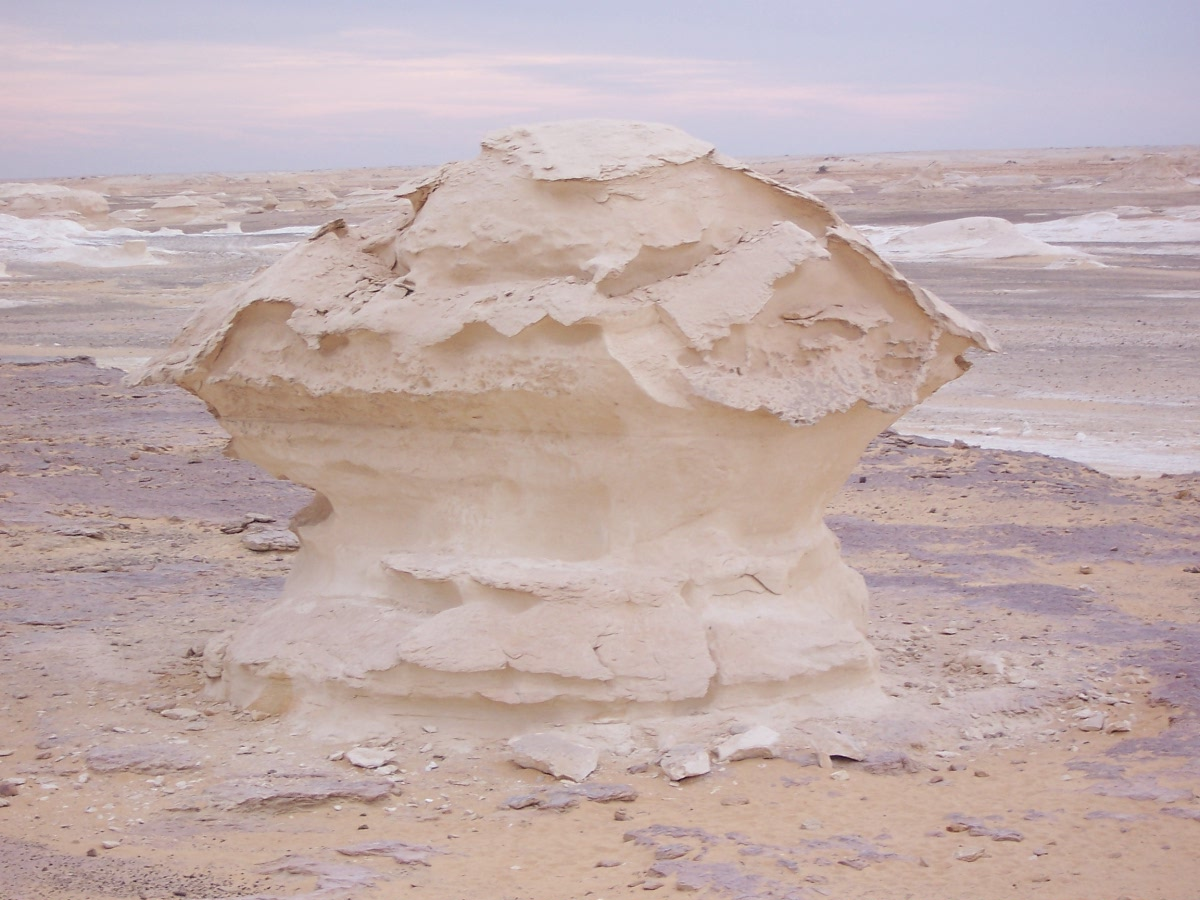 Mushroom rock formations at the White Desert near Farafra, Egypt